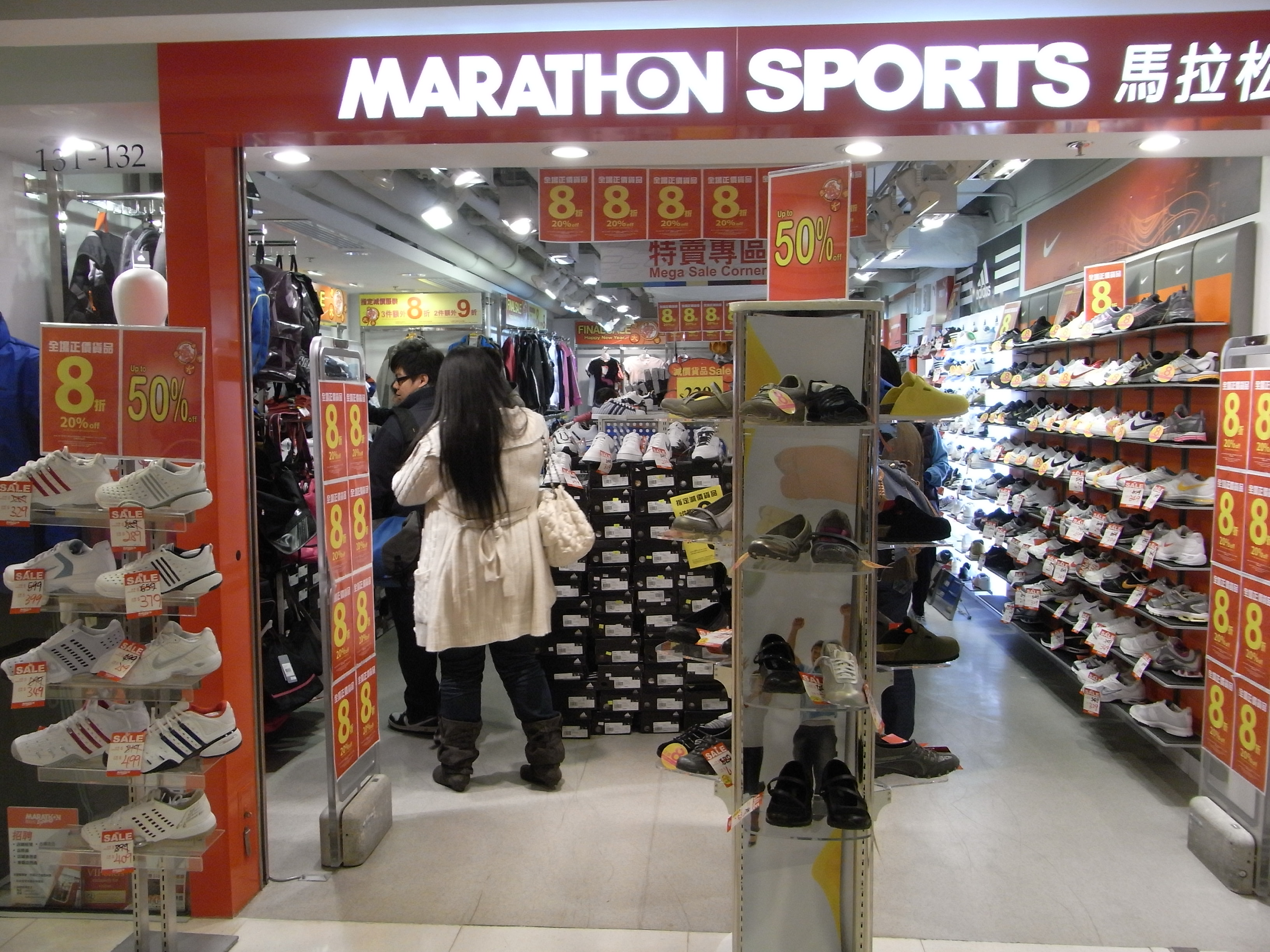 香港九龍城廣場